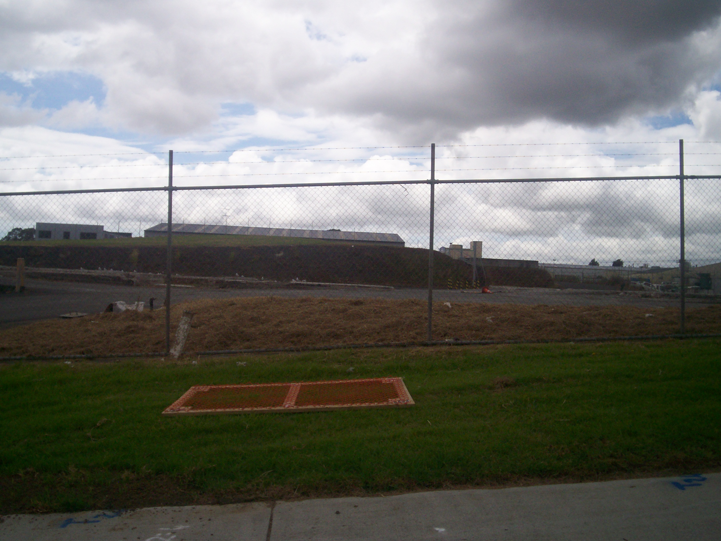 A likely remnant of Ash Hill's northern ridge, as seen from Ash Road. A building partly obscuring this had seemed to be recently demolished before this photo was taken.